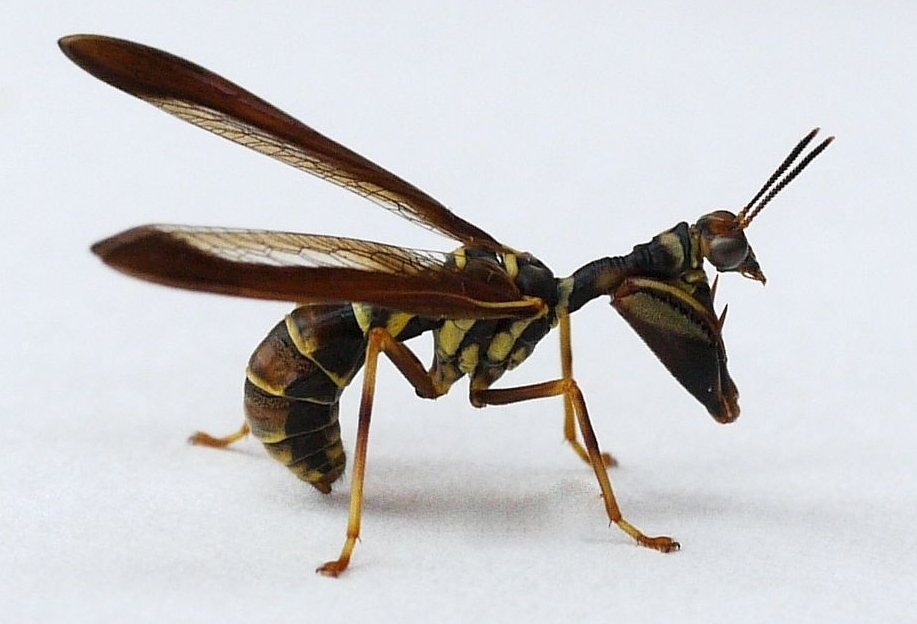 Climaciella brunnea - Wasp Mantidfly. Cross Plains, WI, USA (edited without shadow)